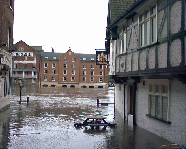 Kings Arms This pub is somewhat renowned for being flooded. A flood gate is clearly visible on the door. Another pub on this street, The Lowther, had a sign saying "Open as Normal (it's only a puddle)".